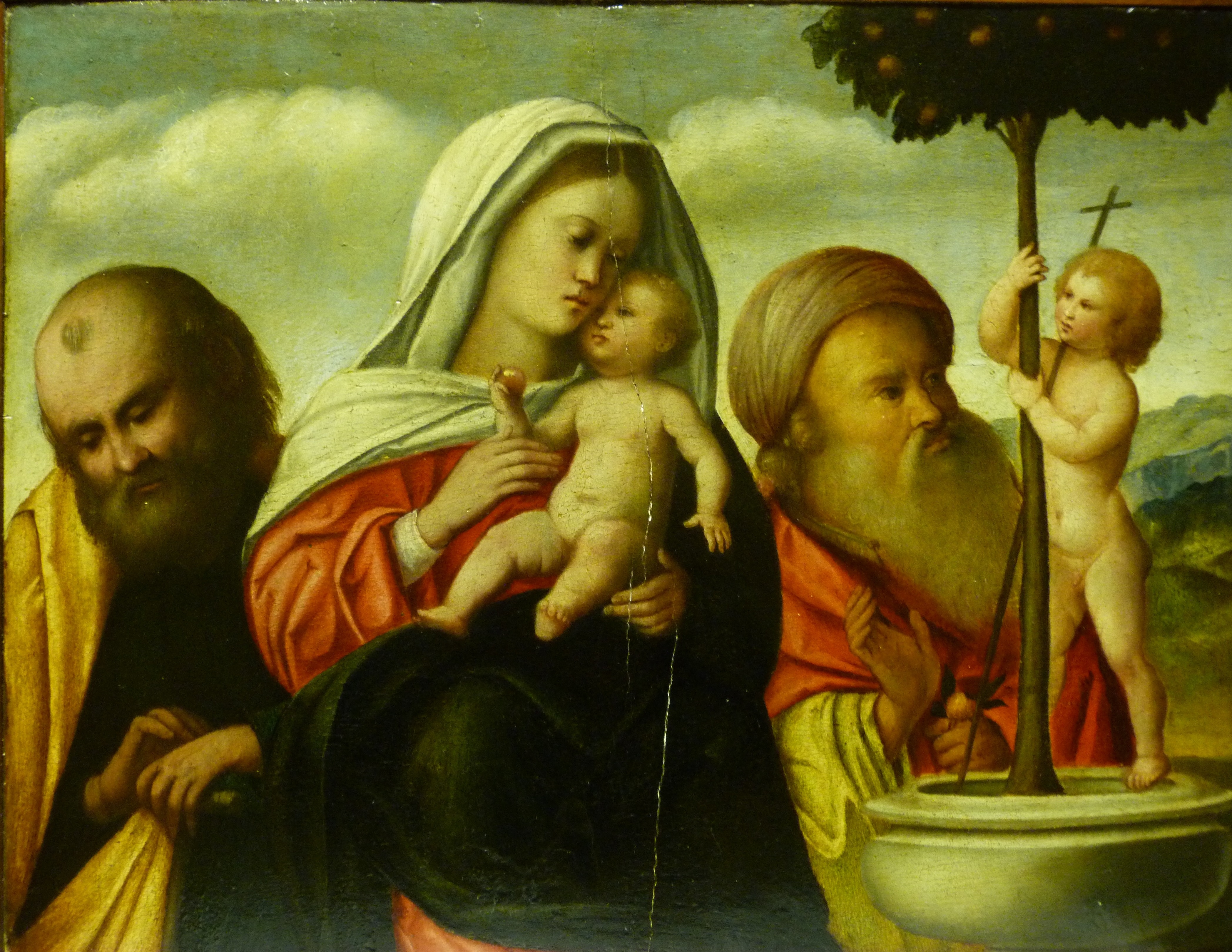 Madonna with Saint Giovannino